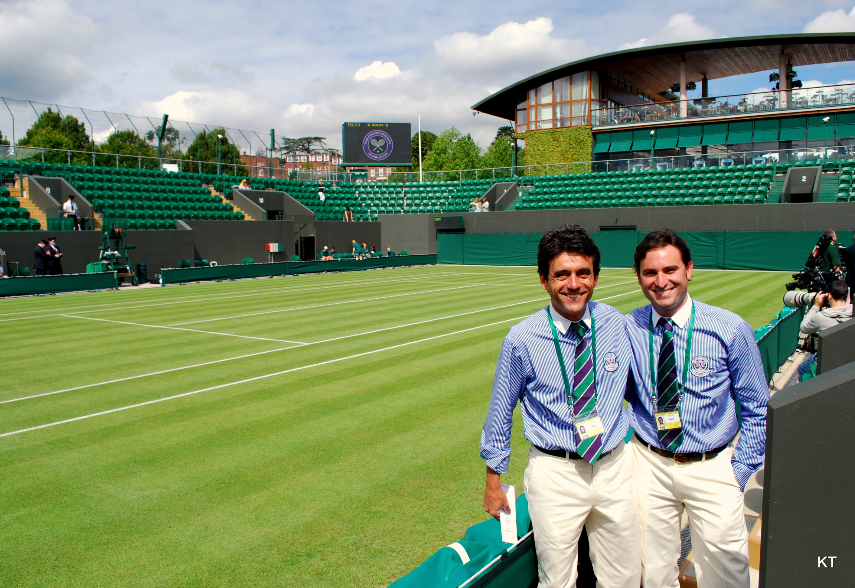 Wimbledon umpires Carlos Ramos and Enric Molina on the new Court 3 before the start of play. Day 1 of Wimbledon 2011.